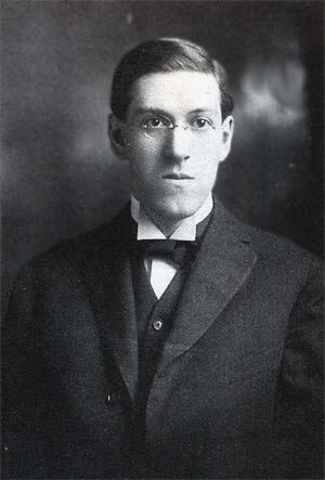 Portrait of horror fiction writer, Howard P. Lovecraft.